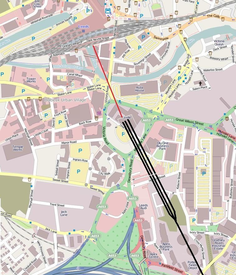 The proposed site of Leeds New Lane railway station. Taken from Open Street Map on 31st of January 2013. The black lines represent the tracks, the red line the pedestrian link to City Station and the grey box the approximate location of the station buildings and platforms.